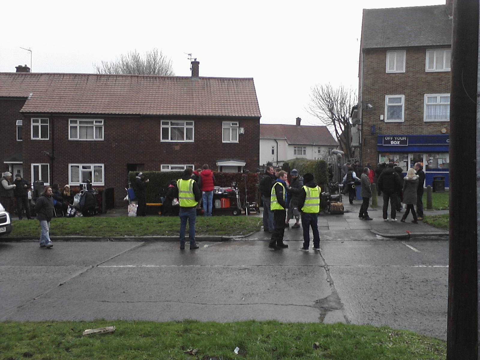 Shooting for Shameless, series 9, episode 13 (later turned into series 10, episode 2) :: Wythenshawe, Manchester, England.